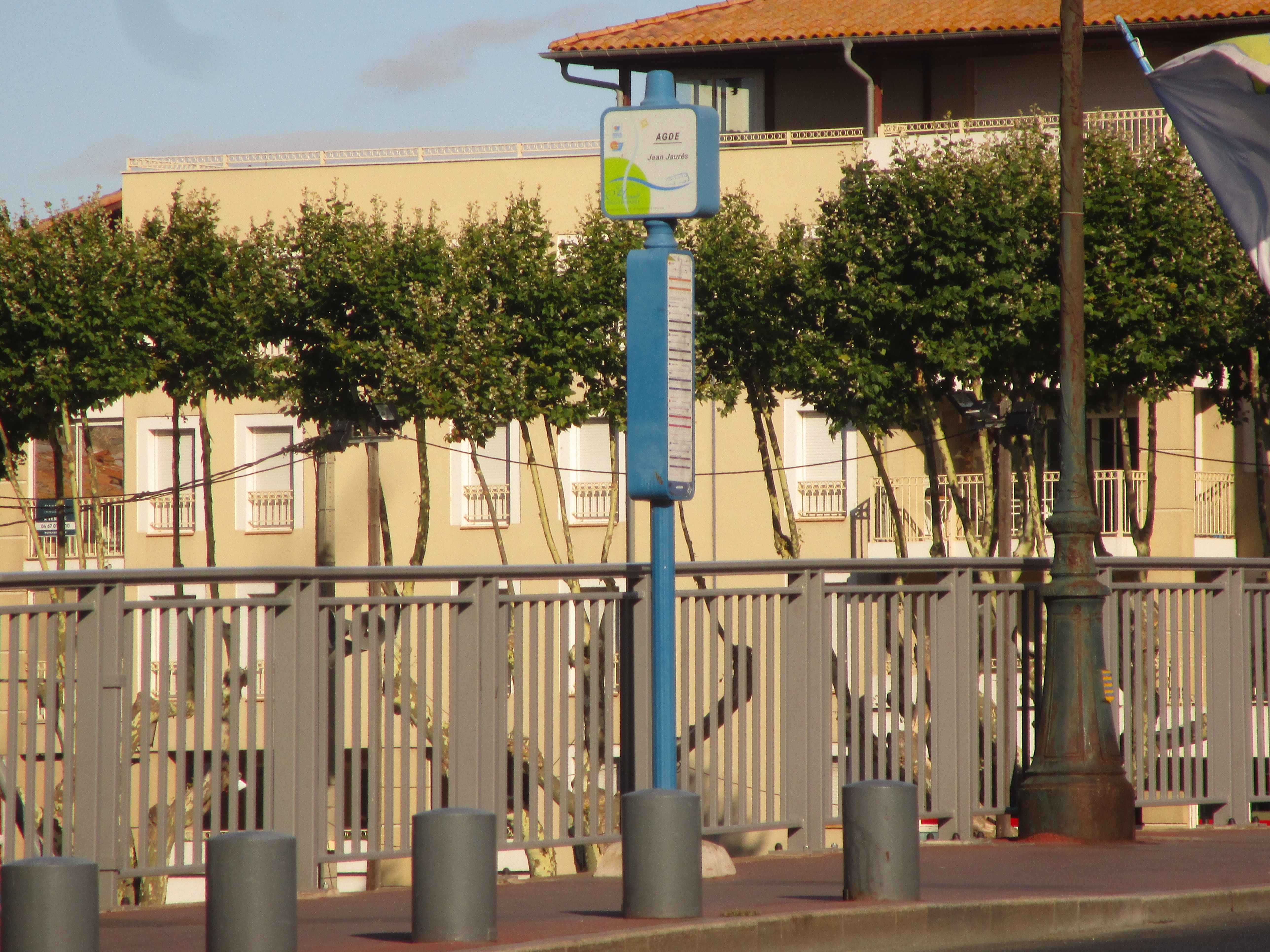 The bus stop Jean Jaurès — in Agde, France — on July 1, 2017.